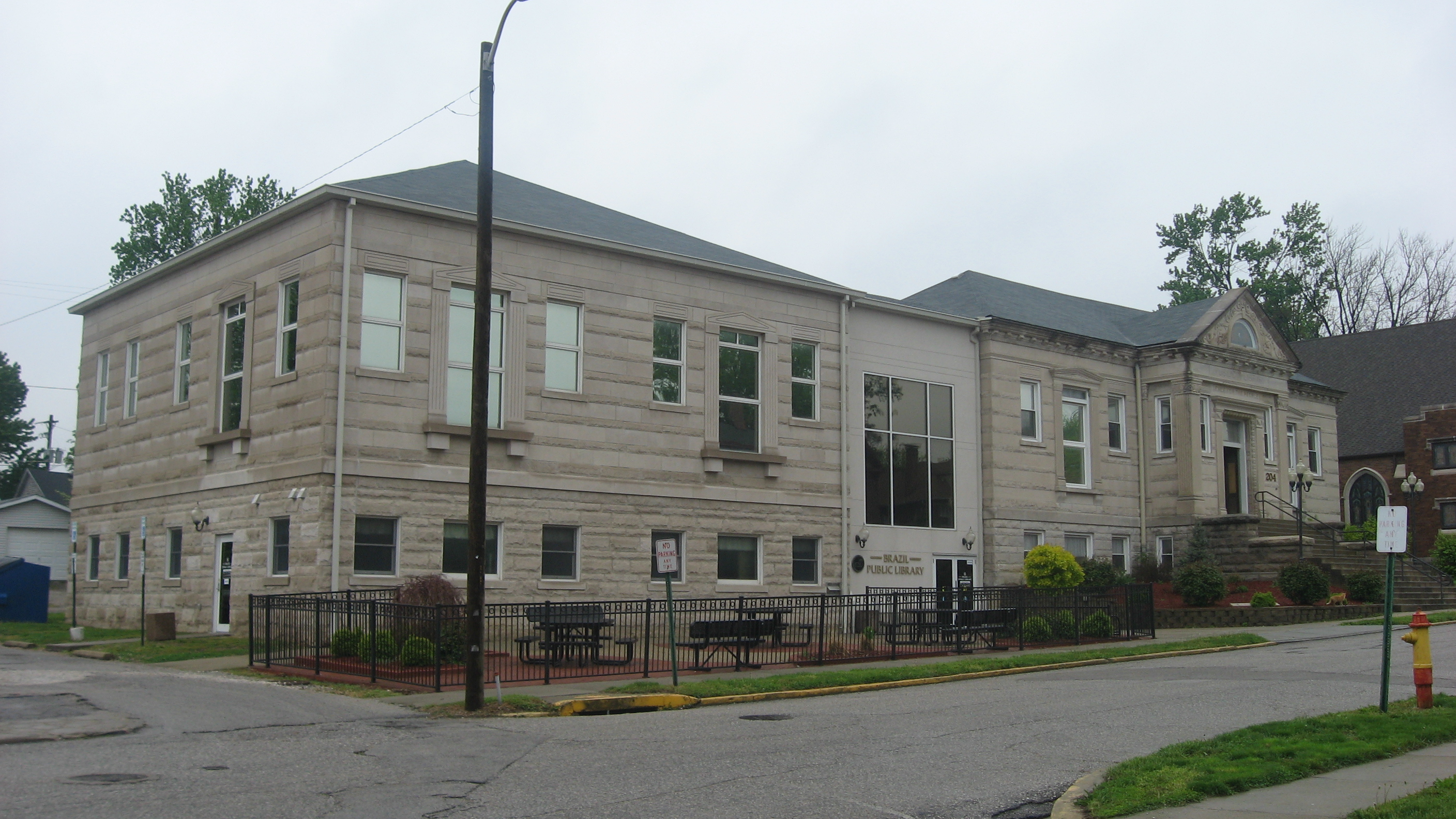 Front of the Brazil Carnegie Library, located at 204 N. Walnut Street in Brazil, Indiana, United States. Built in 1903, it is part of the Meridian-Forest Historic District, a historic district that is listed on the National Register of Historic Places.